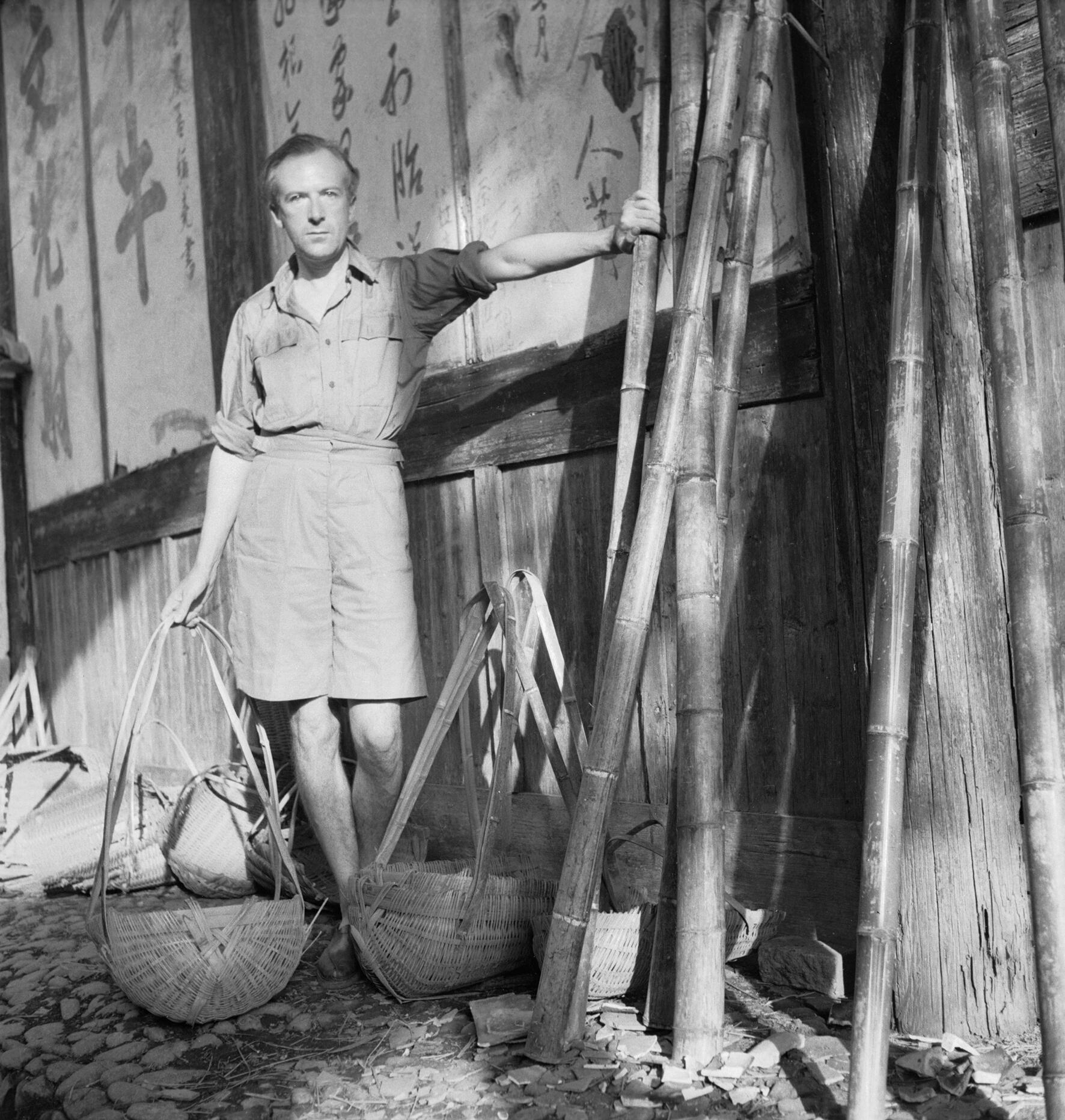 Cecil Beaton Photographs- General Cecil Beaton self portraits: Cecil Beaton (in shorts and shirt) with wicker baskets beside a wall with Chinese characters in Puncheng in south eastern China.